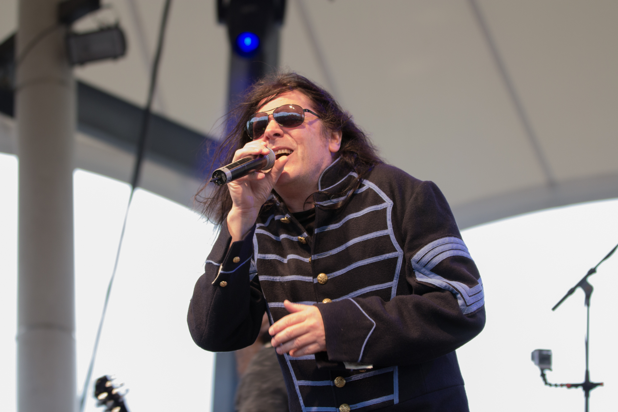 Civil War at Noch ein Bier Fest 2015 (Amphitheater, Gelsenkirchen, North-Rhine-Westphalia, Germany) on 25th July 2015